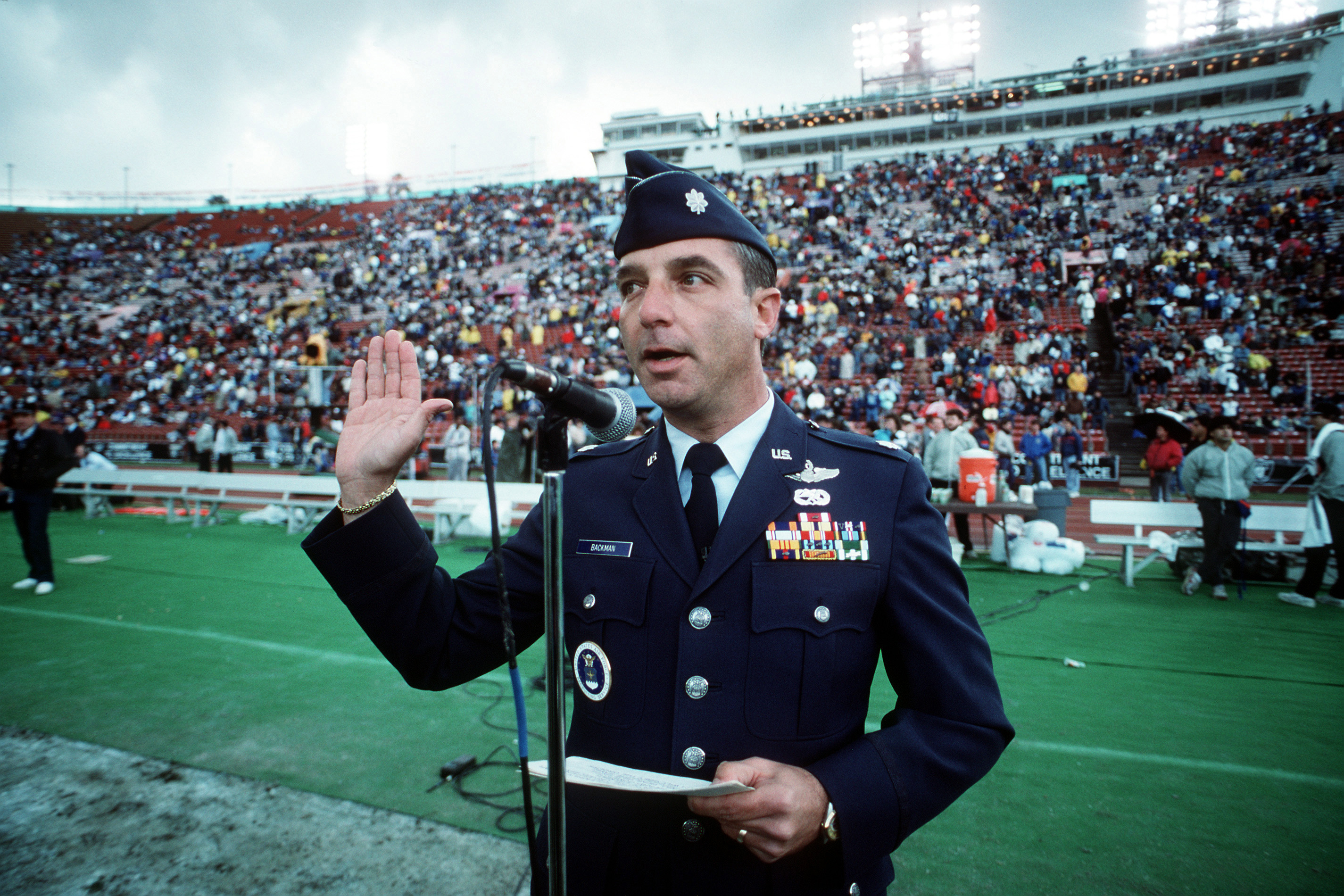 LTC Backman of the Air Force Recruiting Service administers the oath of enlistment to a group of approximately 150 members of the Air Force Delayed Enlistment Program during a ceremony at the Los Angeles Coliseum. Several active-duty airmen are also re-enlisting during the ceremony, which is being held prior to the start of a professional football game.